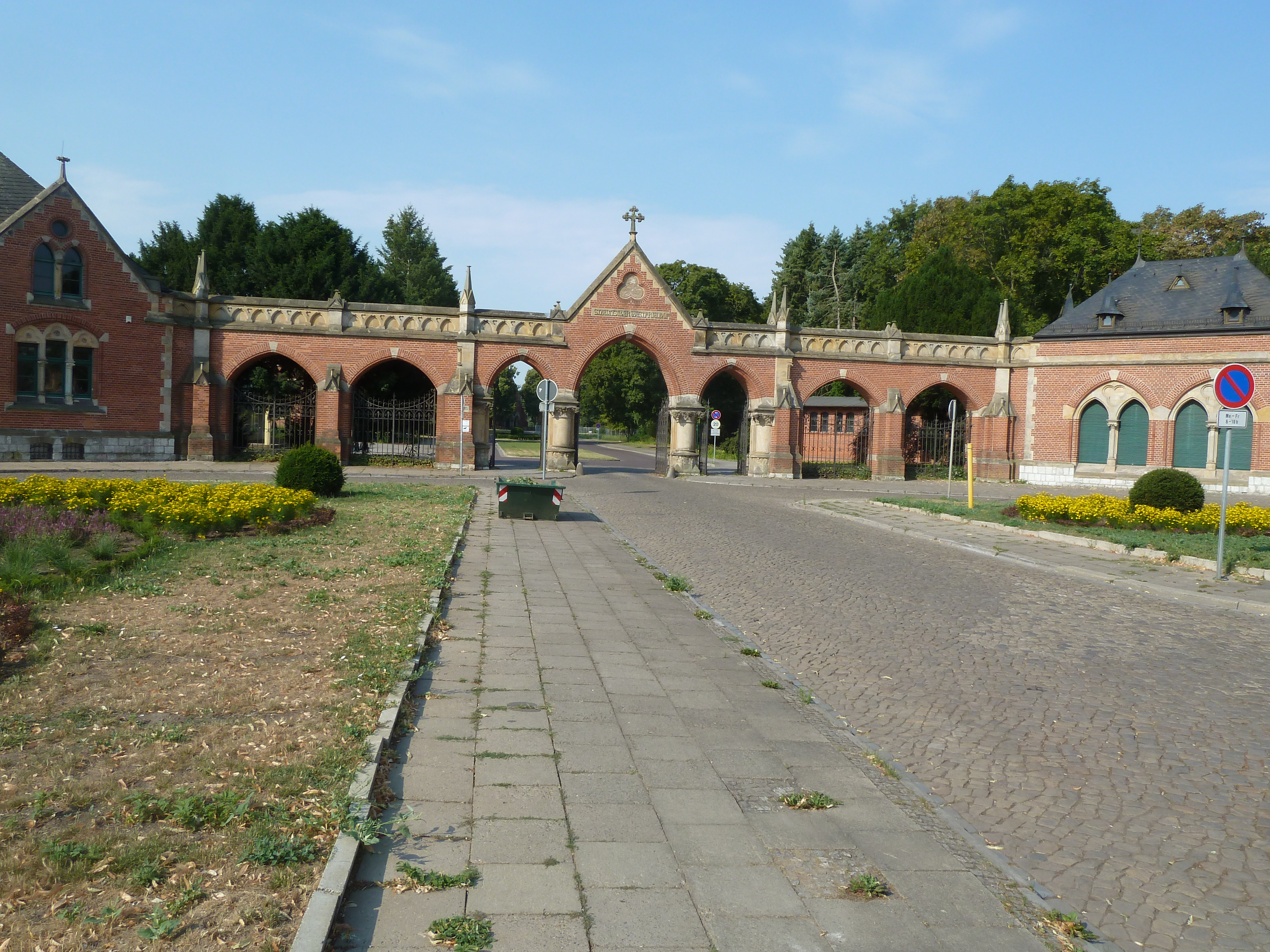 Main entrance to the Westfriedhof in Magdeburg, Germany; this is where the Berlin Wall victims Christel and Eckhard Wehage are buried.